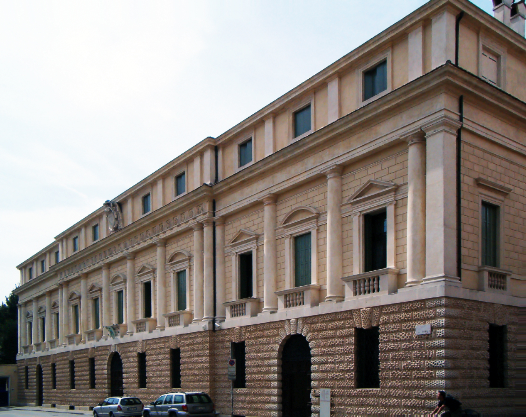 Palazzo Vescovile, Vicenza, Italy.